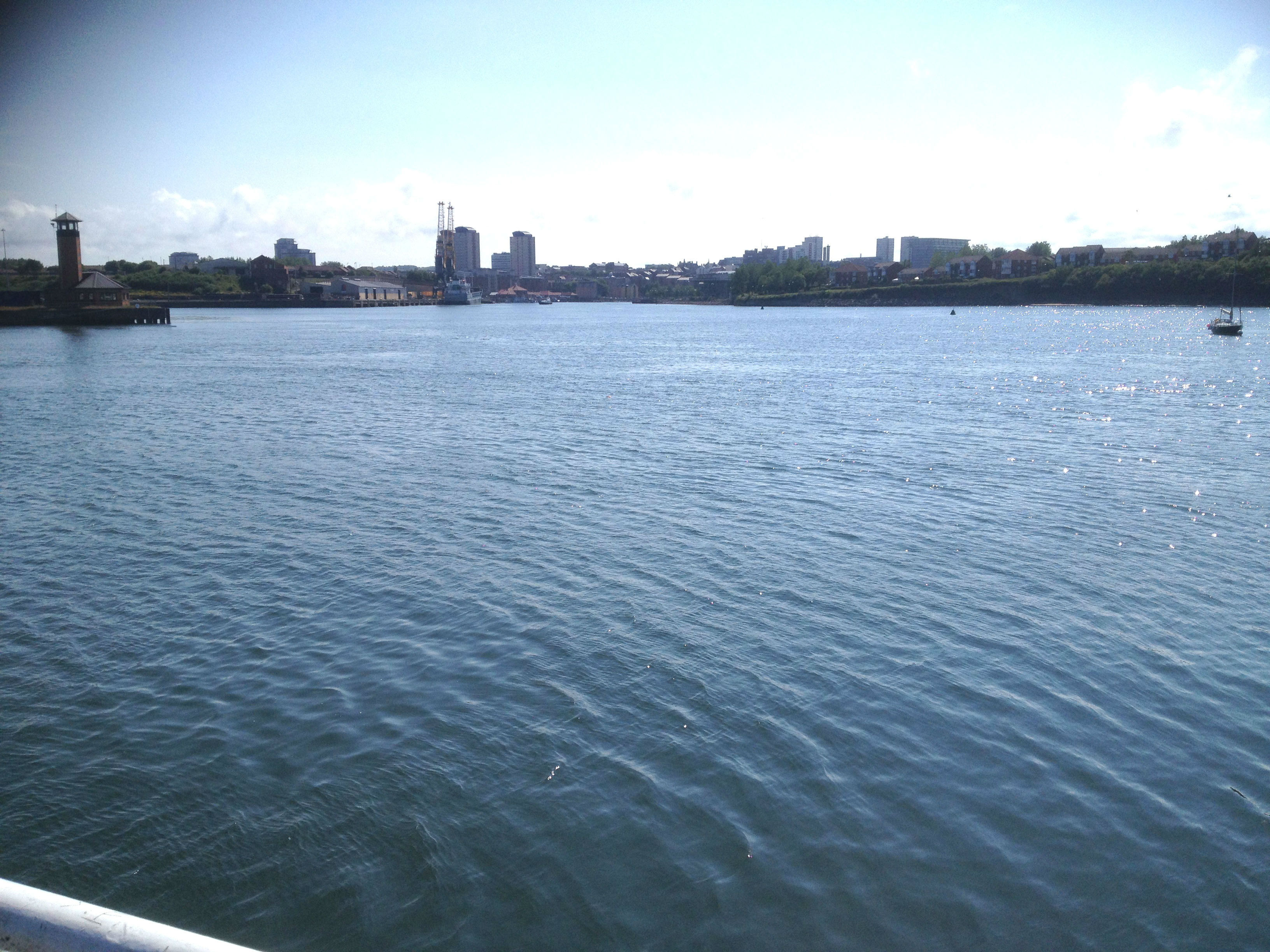 Sunderland harbour viewed from the north dock